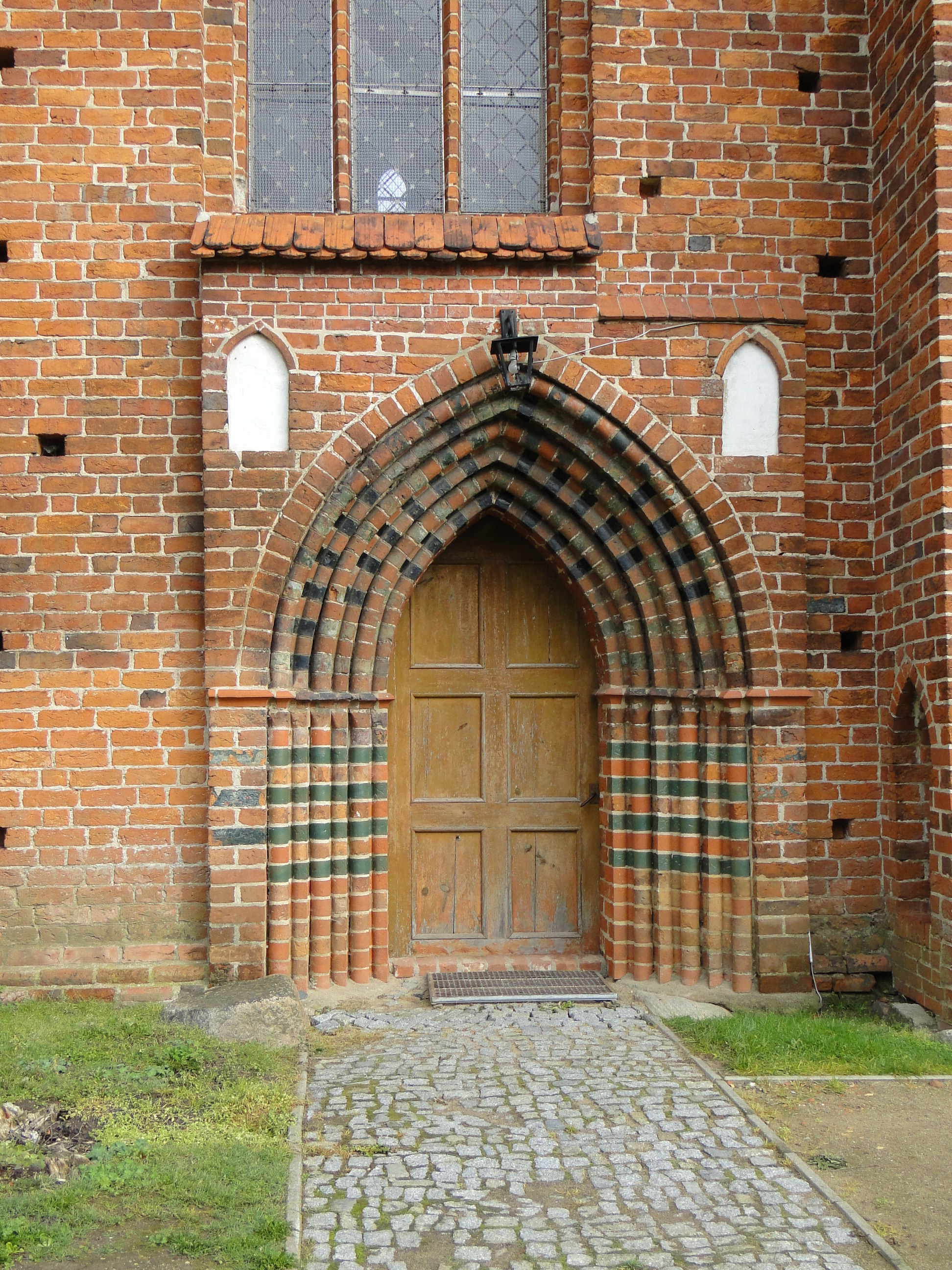 Church in Mestlin, district Ludwigslust-Parchim, Mecklenburg-Vorpommern, Germany Portal